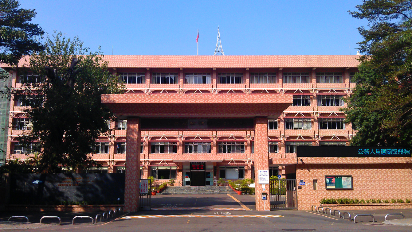 Bureau of Standards, Metrology and Inspection of the Ministry of Economic Affairs of the Republic of China - Taichung Branch